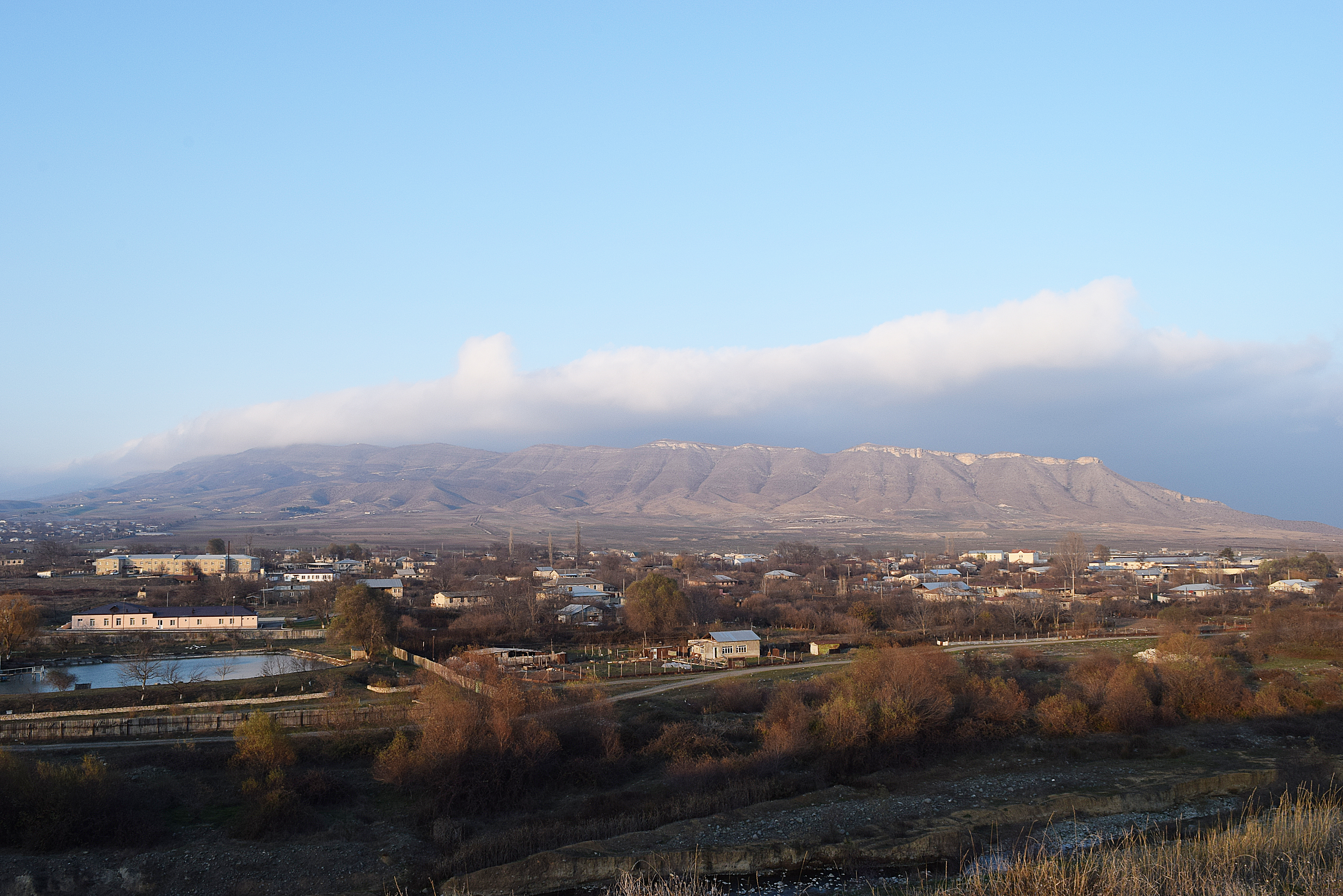 The panorama of Khojali town (Ivanyan village)